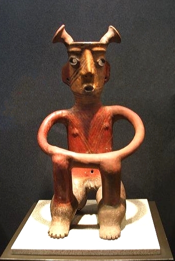 A Zacatecas style figurine from the western Mexico shaft tomb tradition, on display at the National Museum of Anthropology in Mexico City.